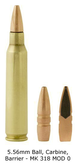 5.56mm Ball, Carbine, Barrier - MK 318 MOD 0